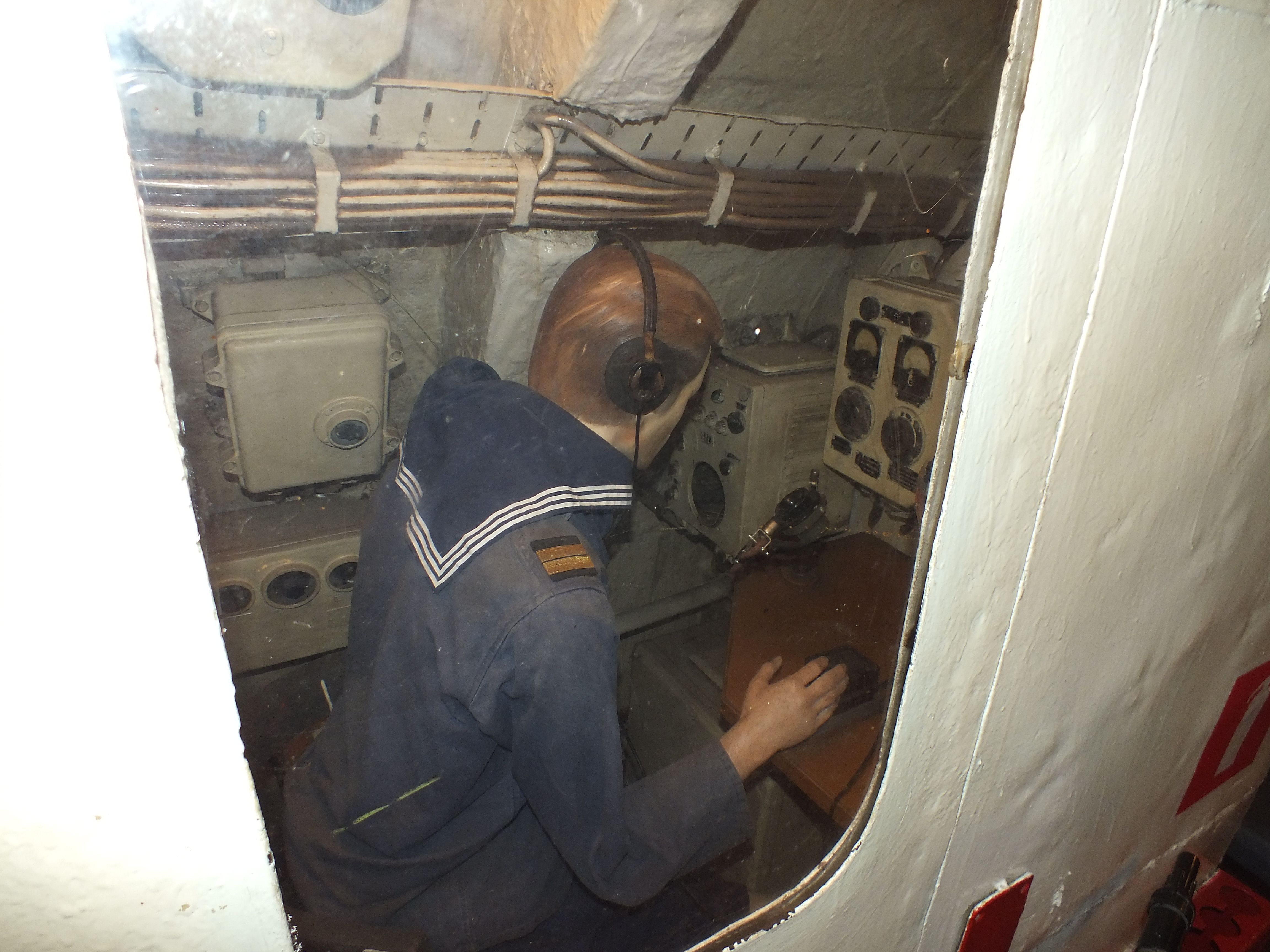 S-56 Submarine Monument (Vladivostok)